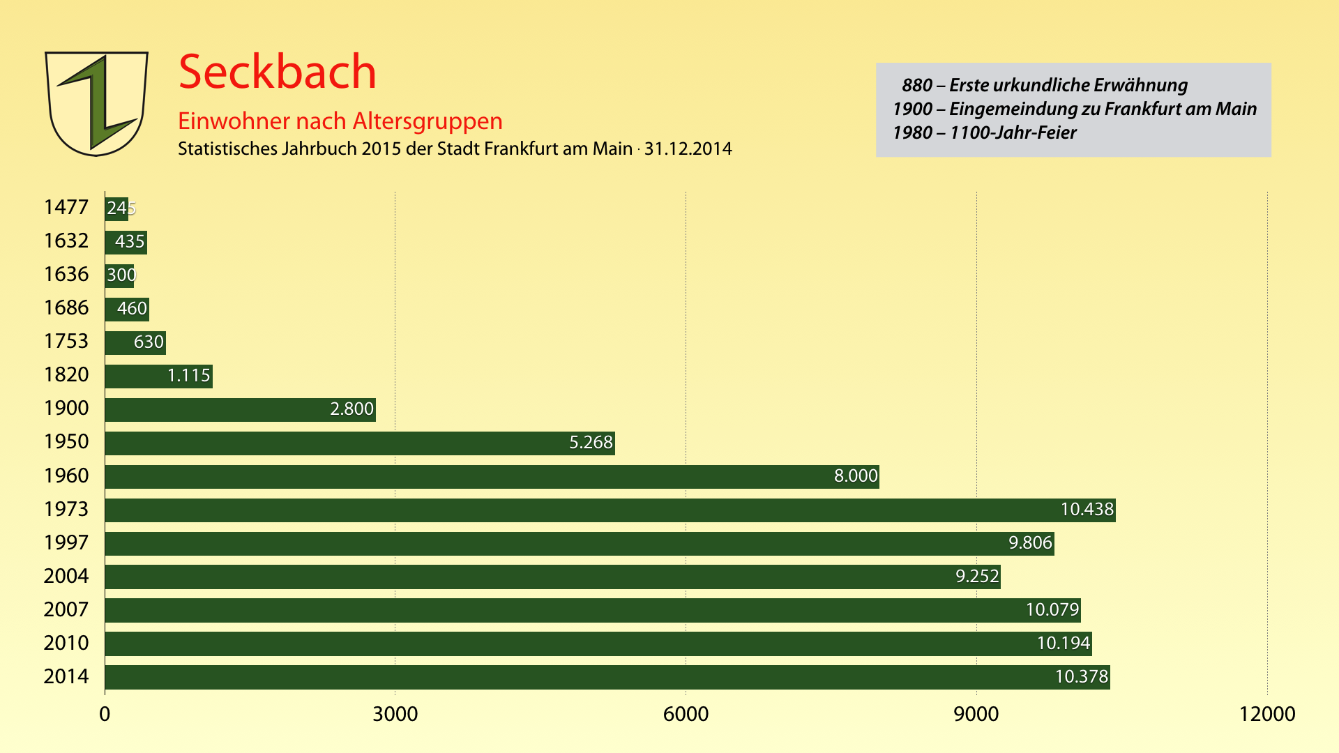 Resident Statistics, Seckbach, Frankfurt, Hesse, Germany